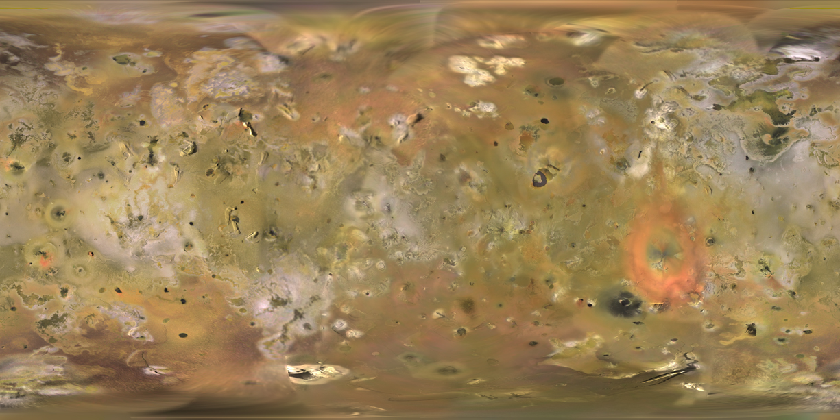 Galileo/Voyager merged photomosaic of Jupiter's moon Io. Latitude range: -90 to 90. Longitude range: 0 to 360.